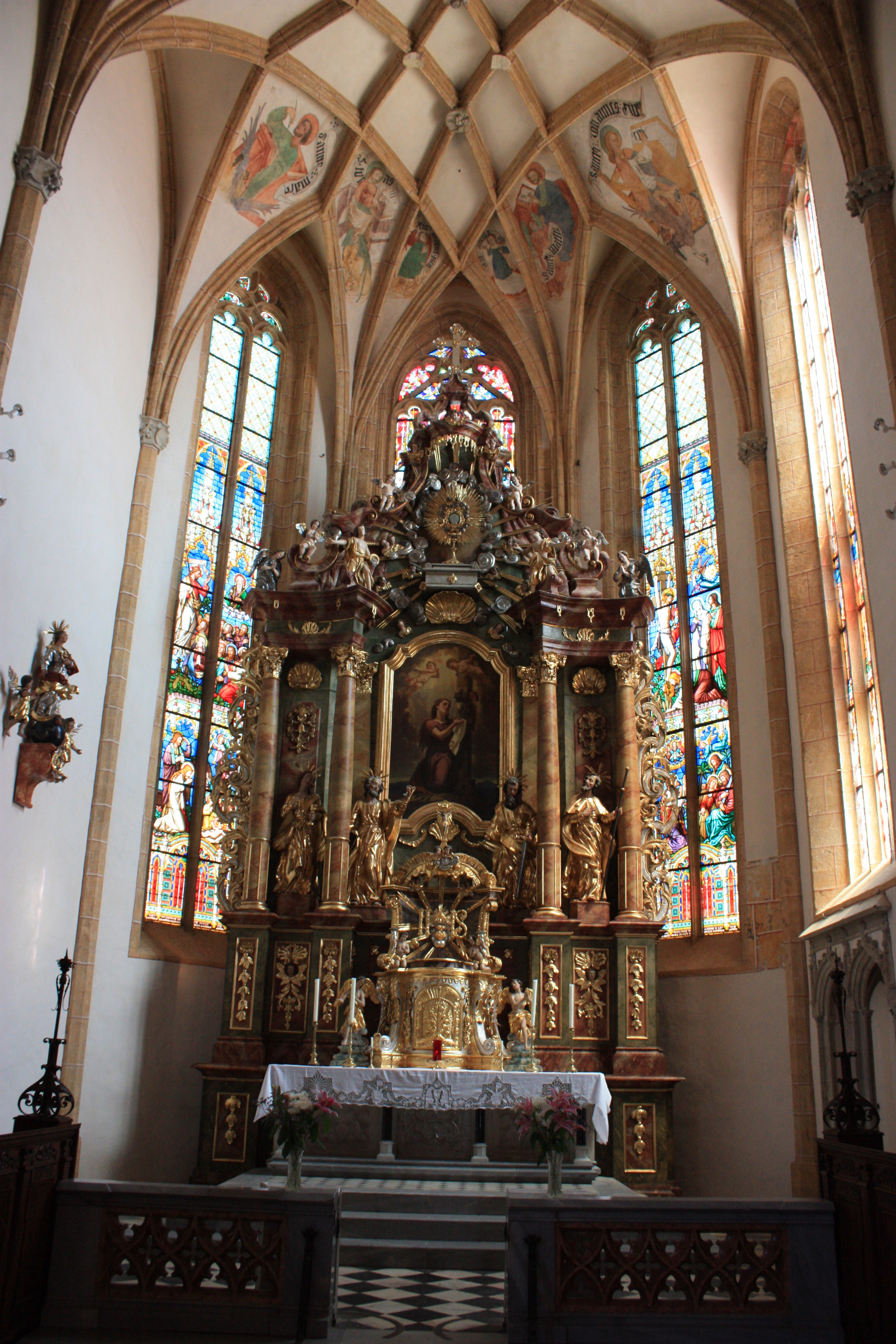 Parish church "Maria Magdalena": Main-altar Street:Kirchengasse Community:Völkermarkt